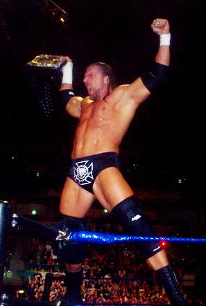 Triple H Taunt During his entrance